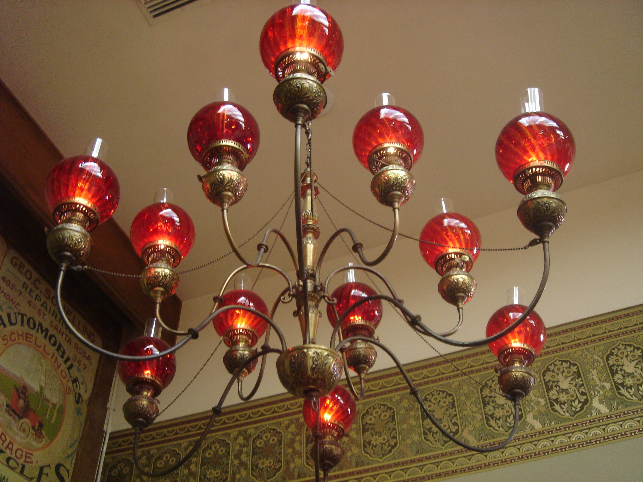 Chandelier at the Sonoma Depot ca